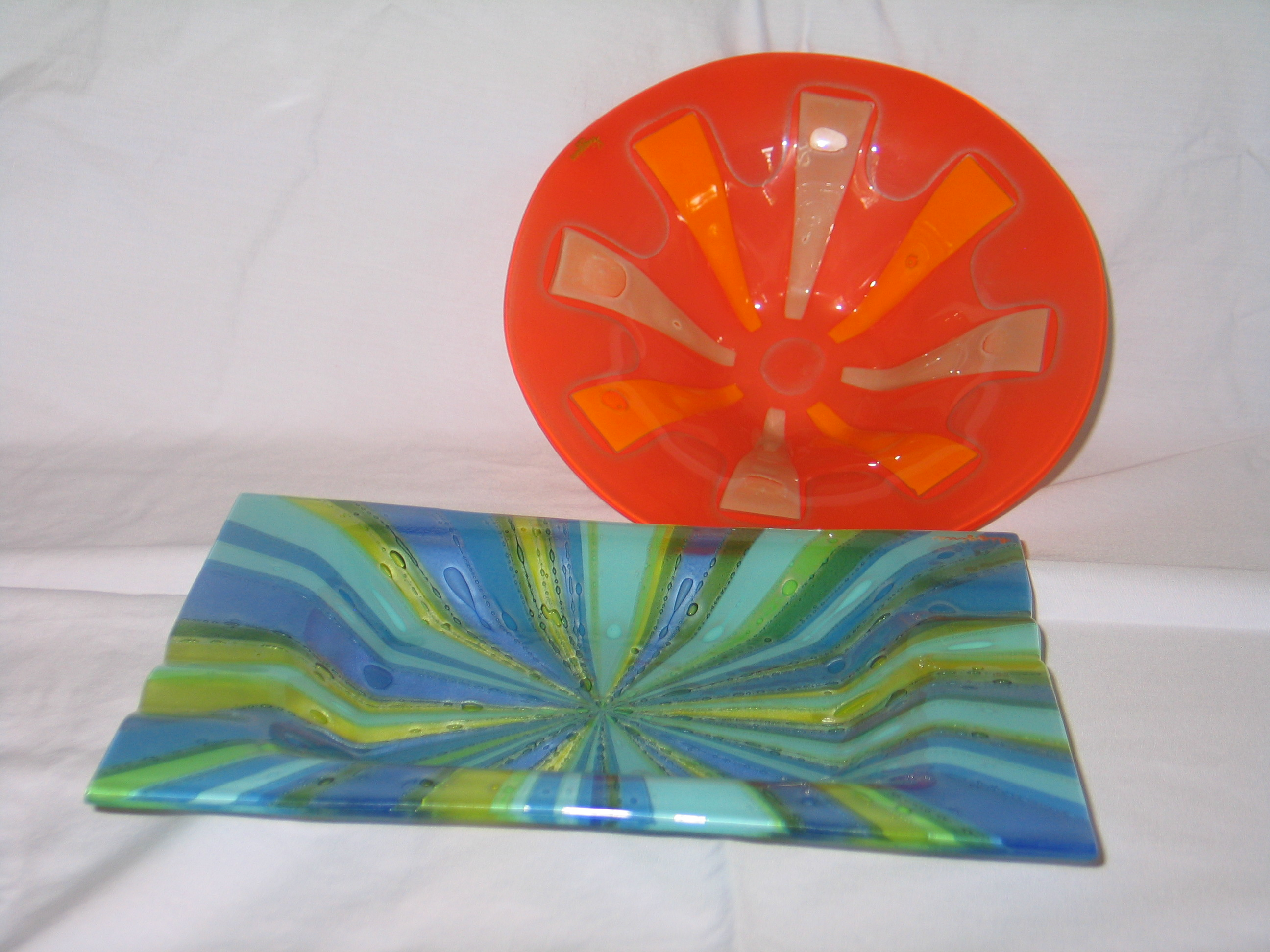 Image of two pieces of Higgins glass